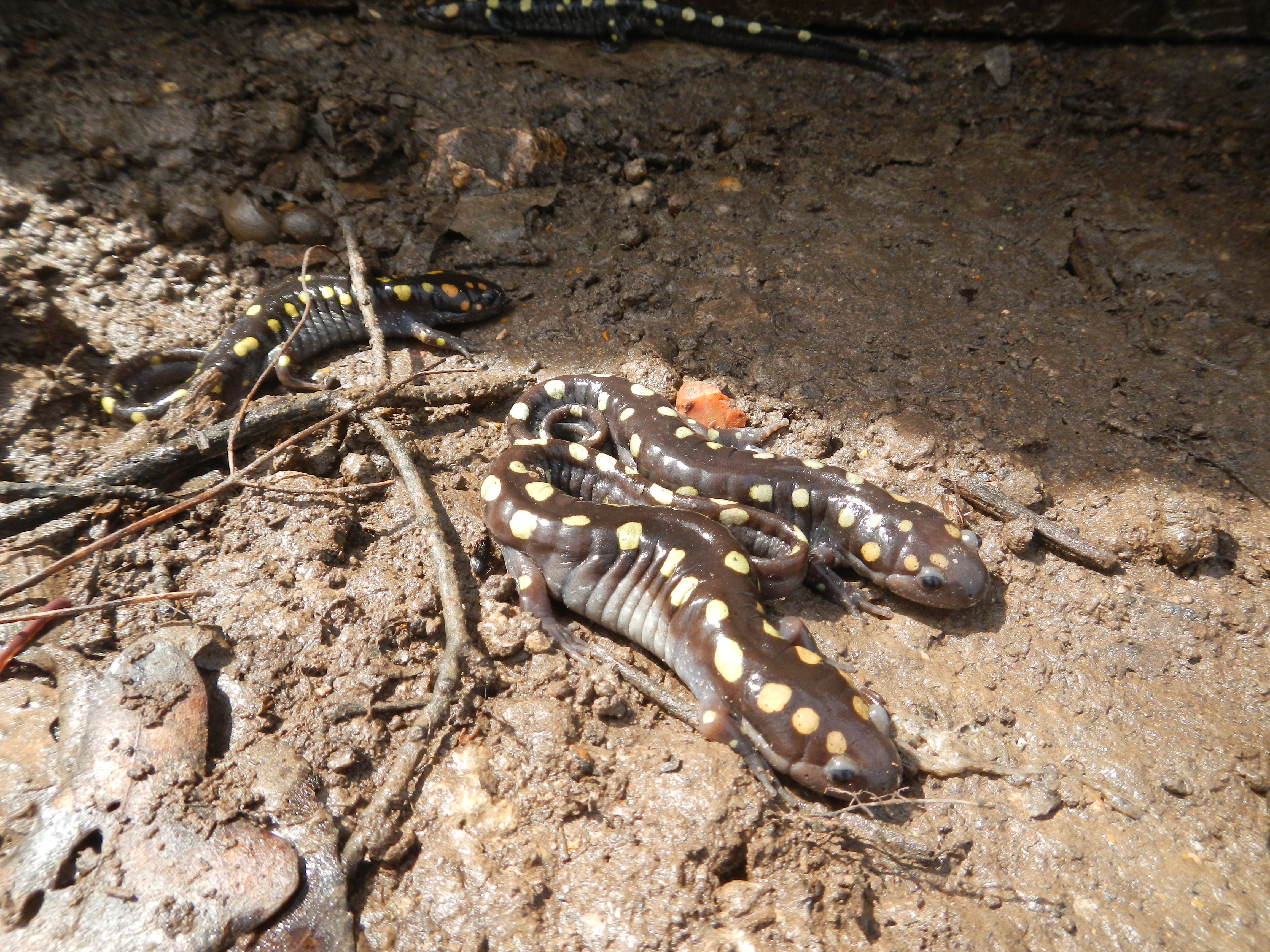 Spotted salamanders (Ambystoma maculatum) in Tyson Research Center, Missouri